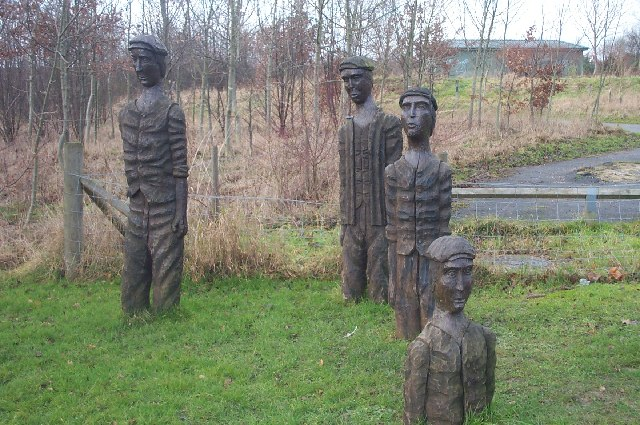 Figures at Brierley Forest Country Park. These figures stand near the Visitor Centre at Brierley Forest Country Park. The park is on the site of the former Sutton Colliery but which was called Brierley as many of the original miners came from Brierley in Staffordshire.